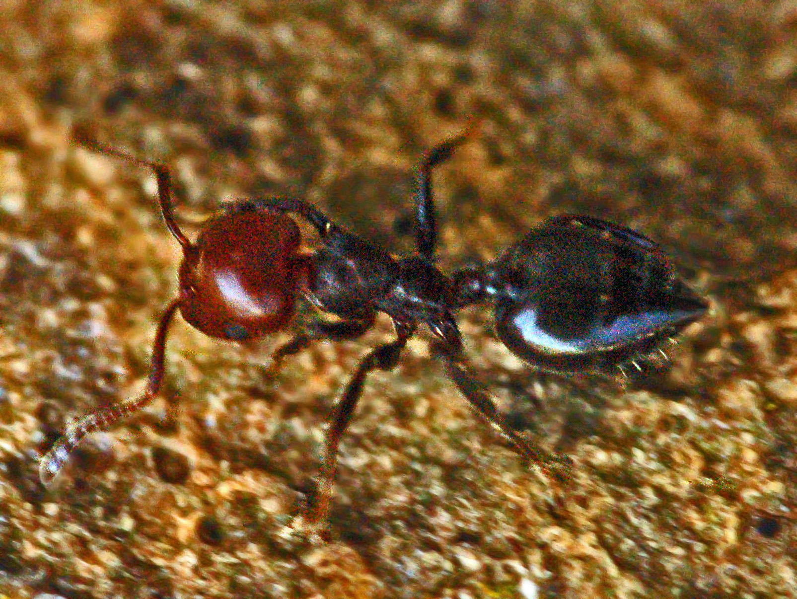 "Crematogaster scutellaris". Genova, Italy